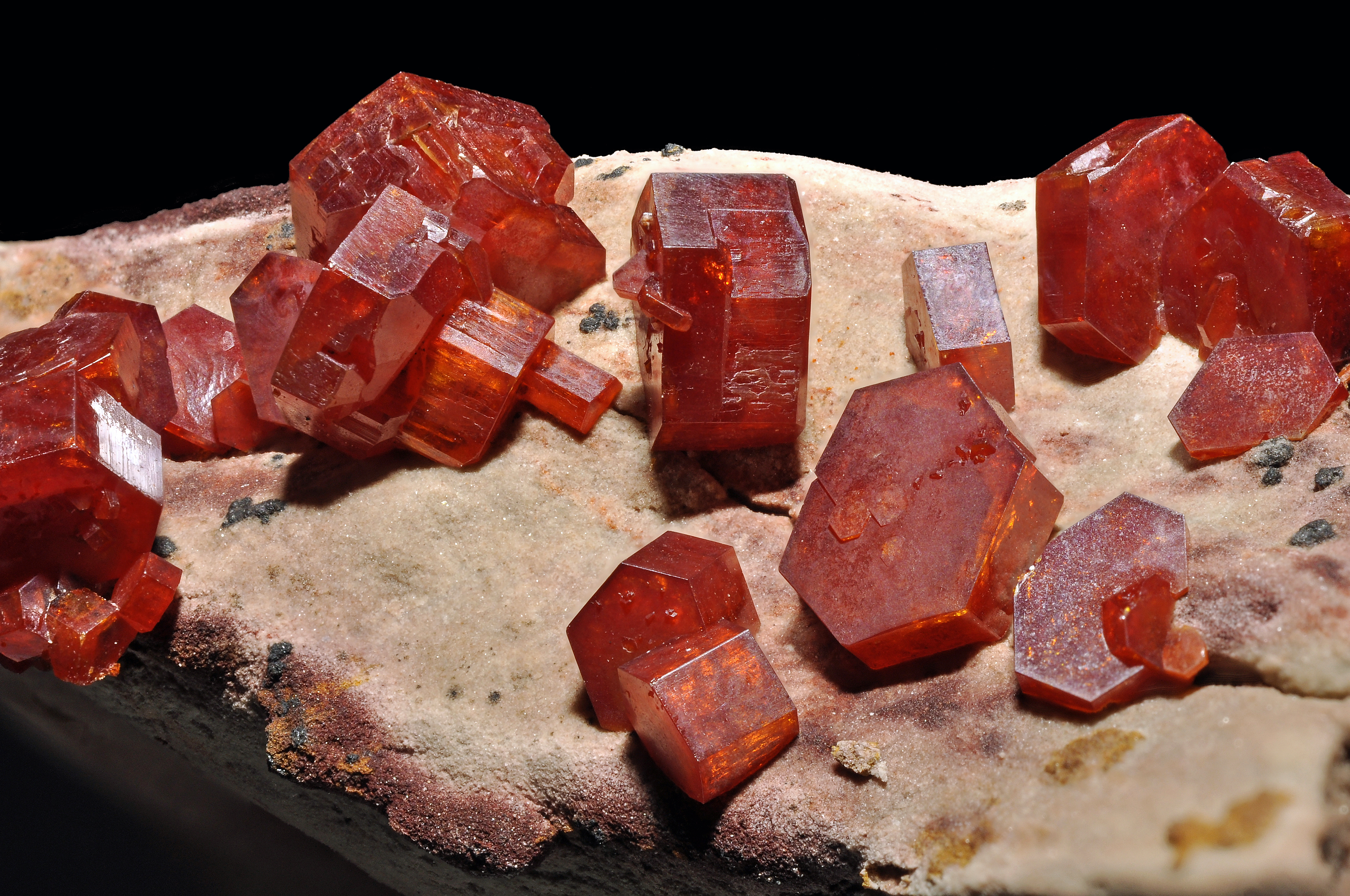 vanadinite : Mibladen Mine, Mibladane (Mibladén ; Mibladan ; Miblanden), Aouli, Upper Moulouya lead District, Midelt, Khénifra Province, Meknès-Tafilalet Region, Morocco